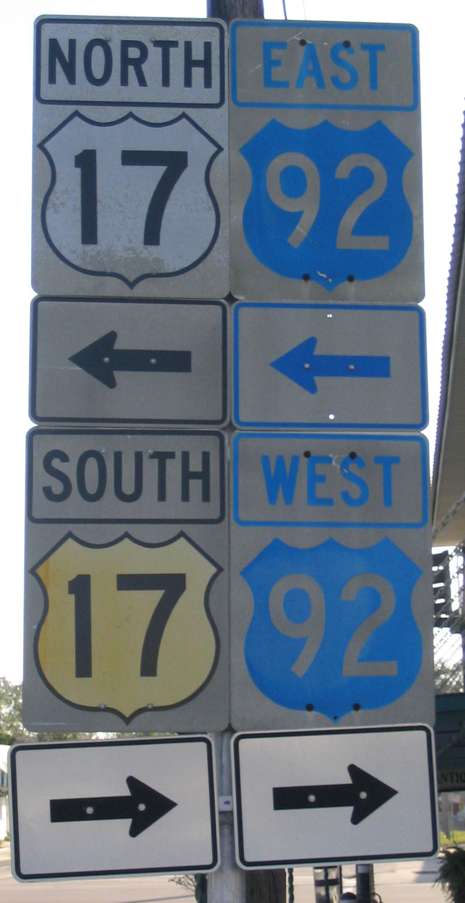 Colored U.S. Highway 17/U.S. Highway 92 shields in Lake Alfred, Florida. Taken February 6, 2005 by User:SPUI. Amusingly, an antique store and the 'Remember When Cafe' are to the right. A geocoded location could be added to this image. Visit Commons:Geocoding for information on how to add coordinates. Beta-test: Add coordinates helps to determine coordinates.